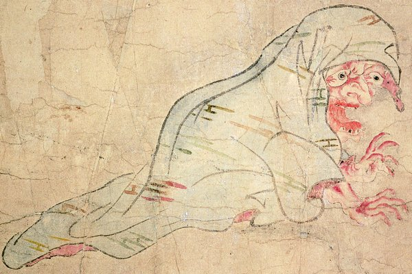 Gagoze (a demon who attacked young priests at Gangō-ji temple) from the Bakemono-dukushi